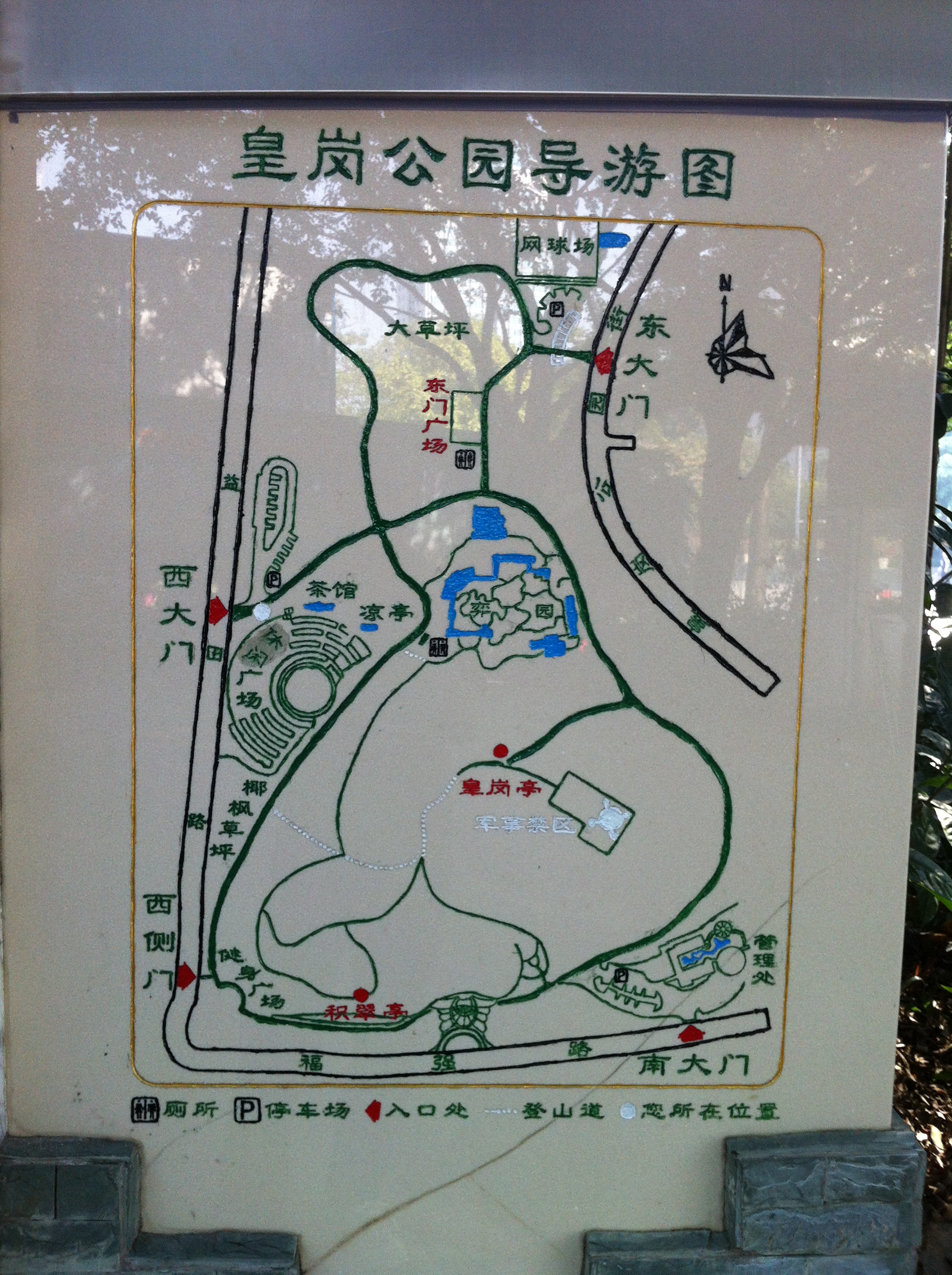 Huanggang map